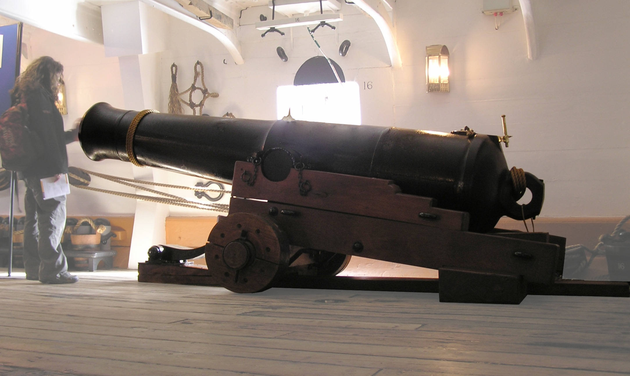 A fibreglass replica of a 68-pounder smoothbore cannon onboard HMS Warrior.